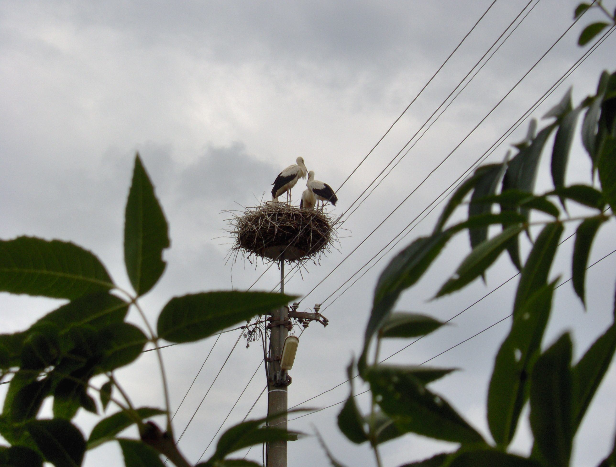 Mýtne Ludany